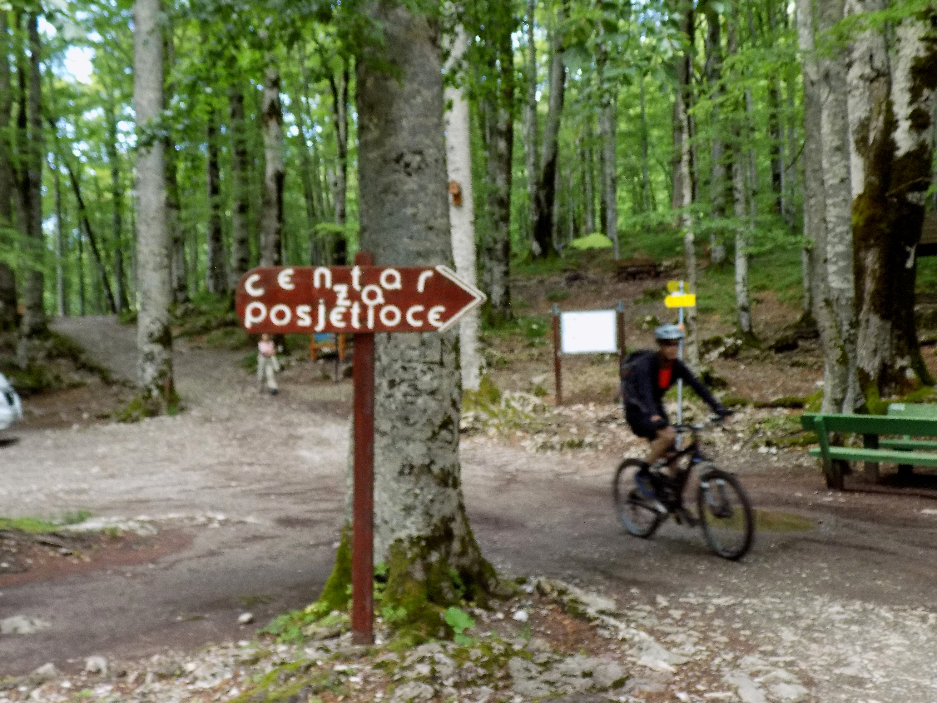 Biogradska Gora National park, the oldest protected natural resource in Montenegro